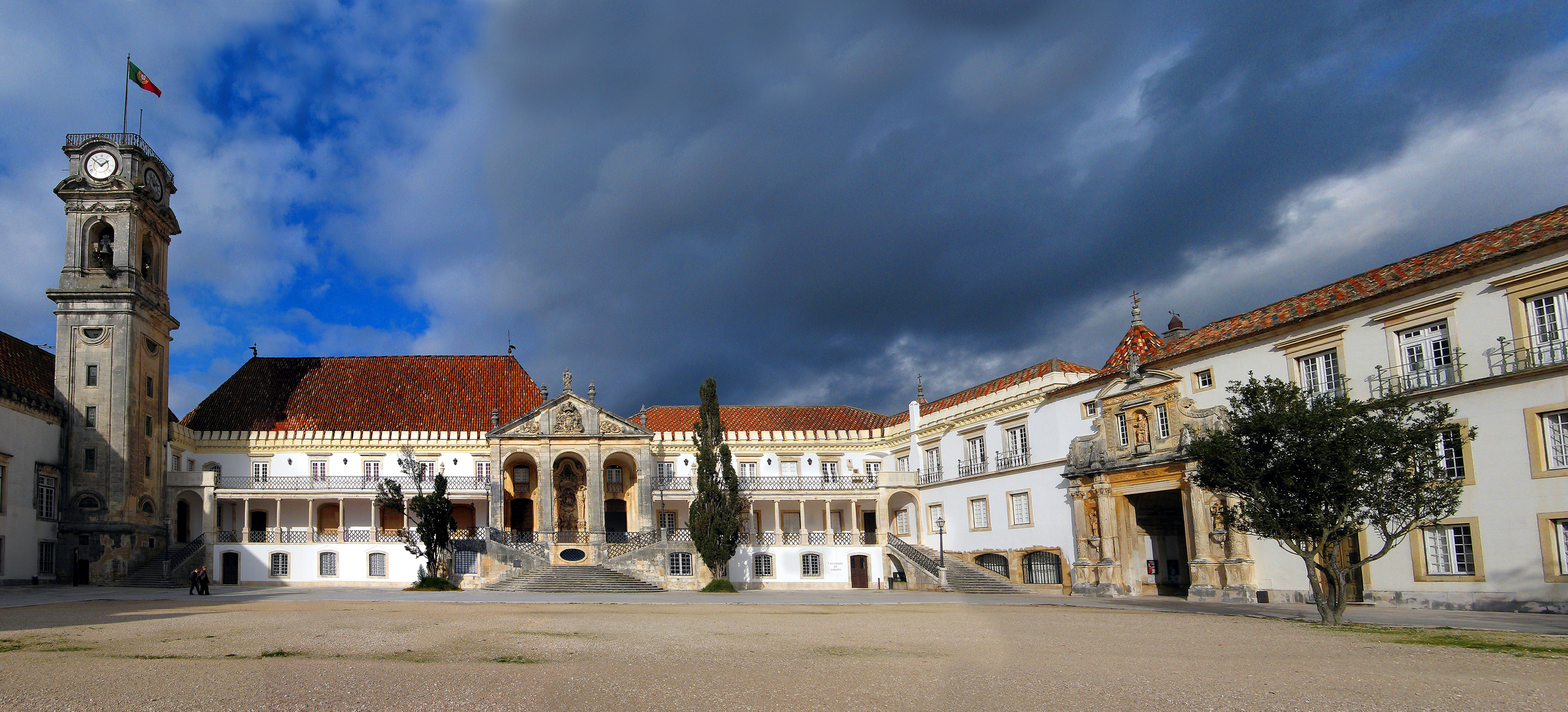 The tower of the University of Coimbra